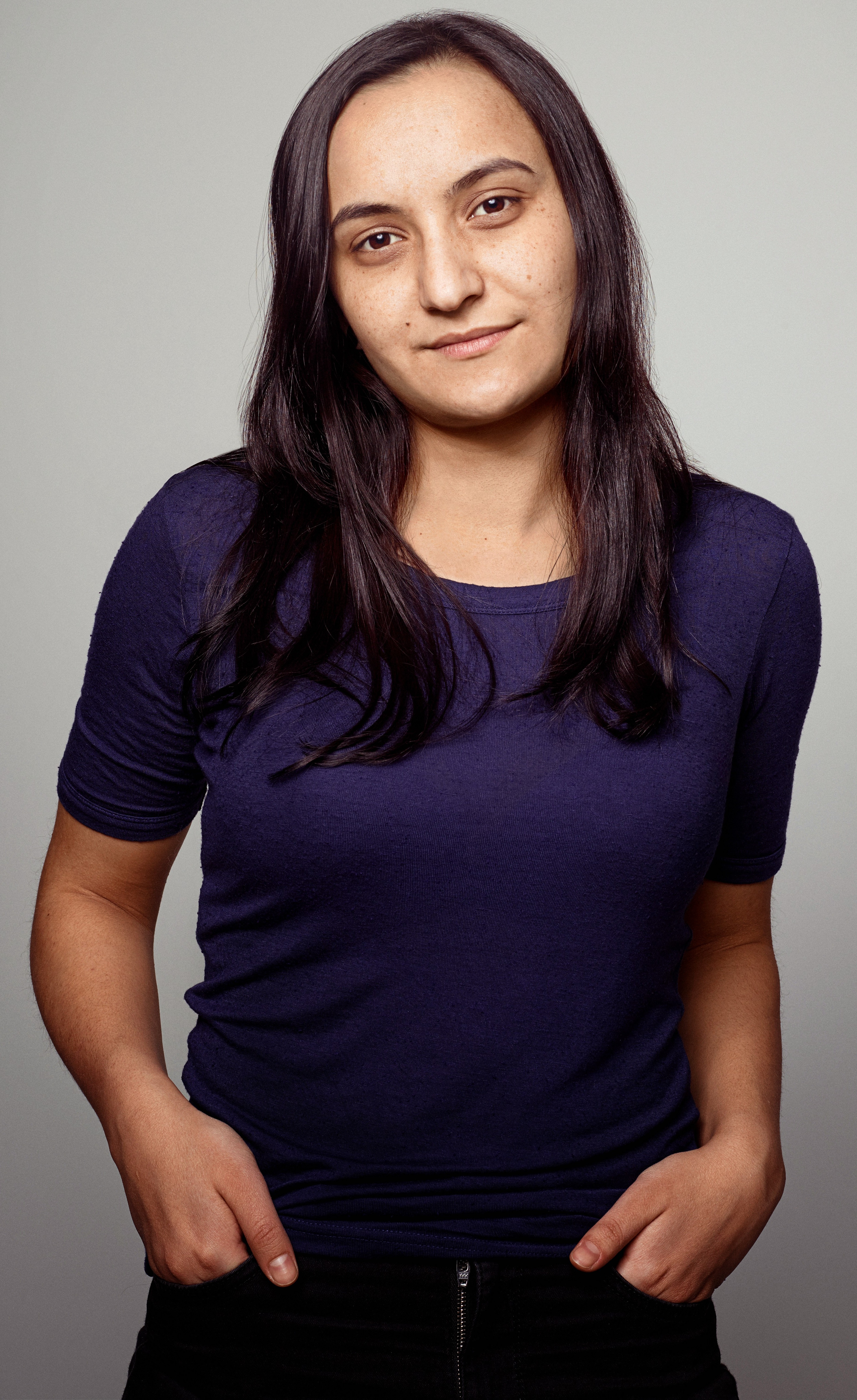 Red Party politician Seher Aydar in 2013.